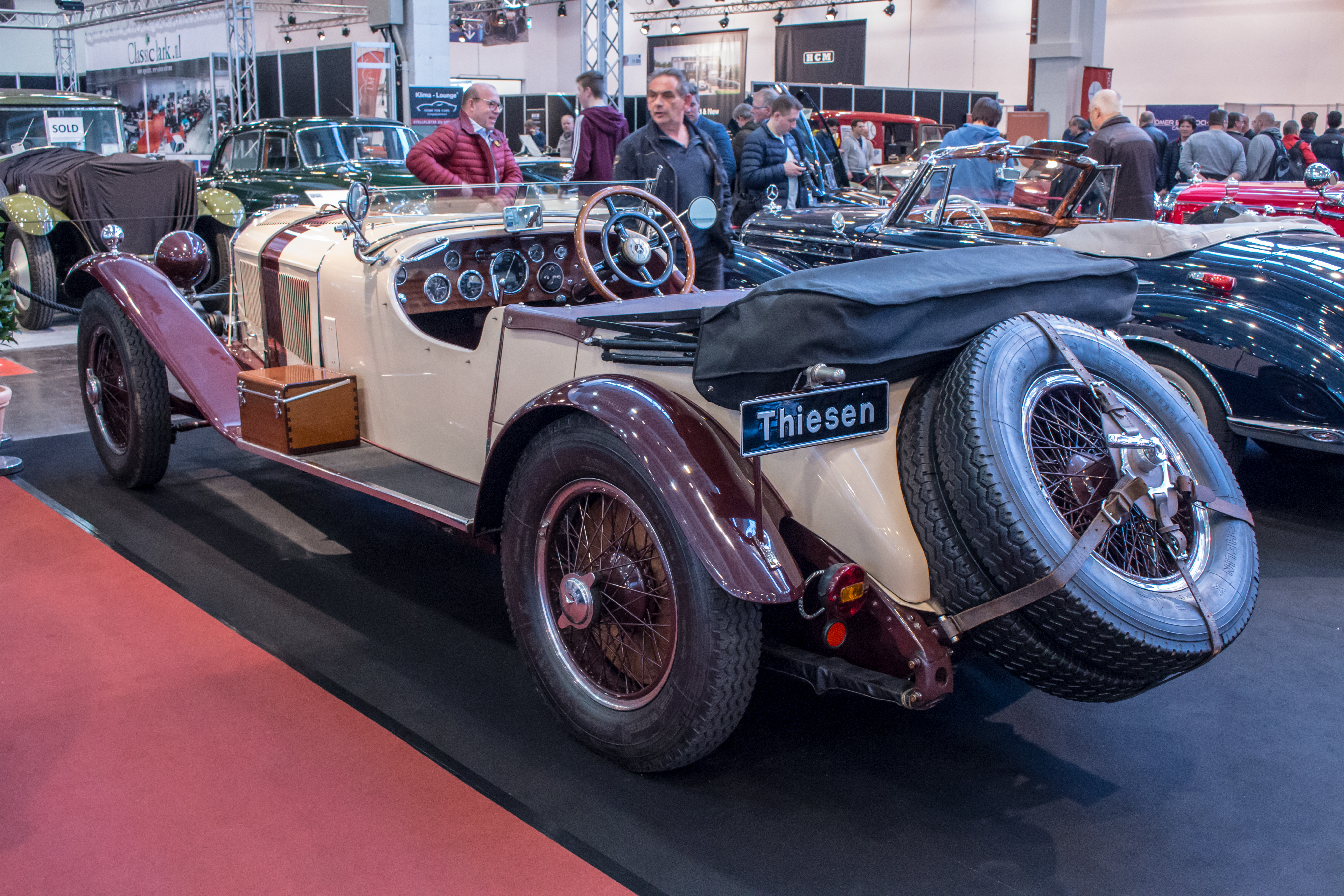 Mercedes-Benz, Techno-Classica 2018, Essen